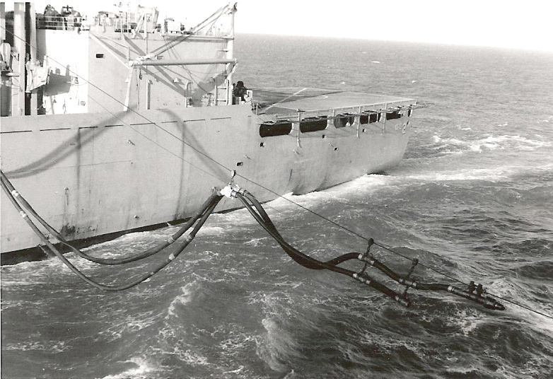 A United States Navy underway replenishment refueling hose between USS Camden (AOE-2) and USS Chicago (CG-11).